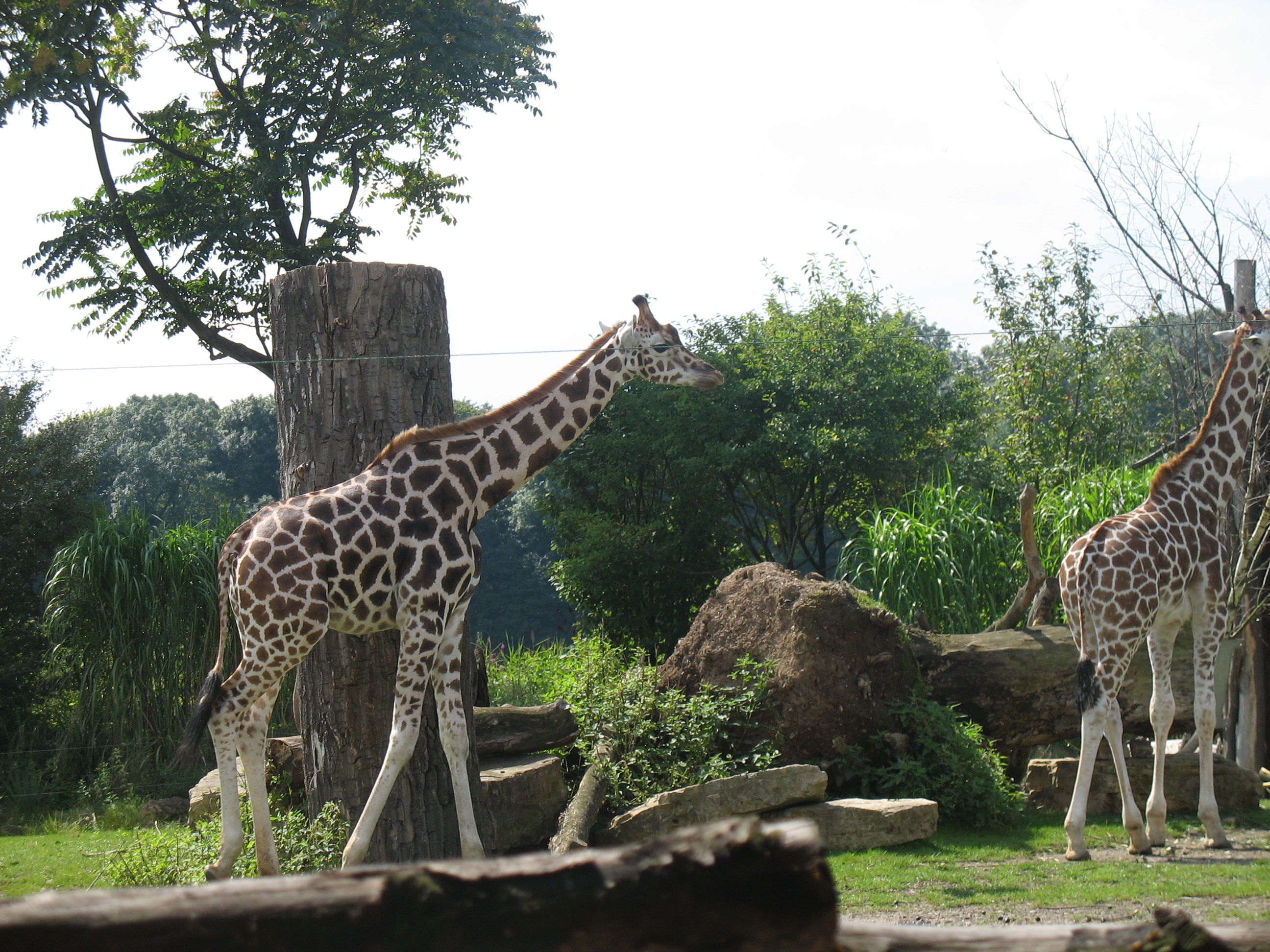 giraffes in Zoo Leipzig